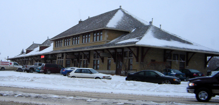 Canadian National Register Heritage Society Protected Sites Saskatoon Railway Station (Canadian Pacific) Caswell Hill, Saskatoon, Saskatchewan, Core Neighbourhoods SDA, Saskatoon, Saskatchewan, Canada